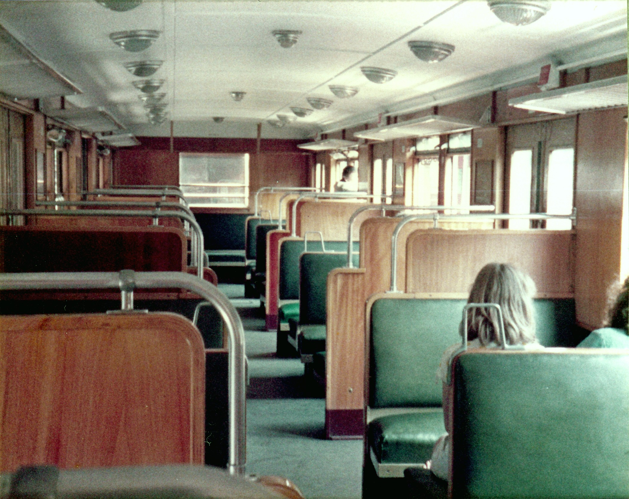 Berliner S-Bahn (West), train type ET 165. June 1984